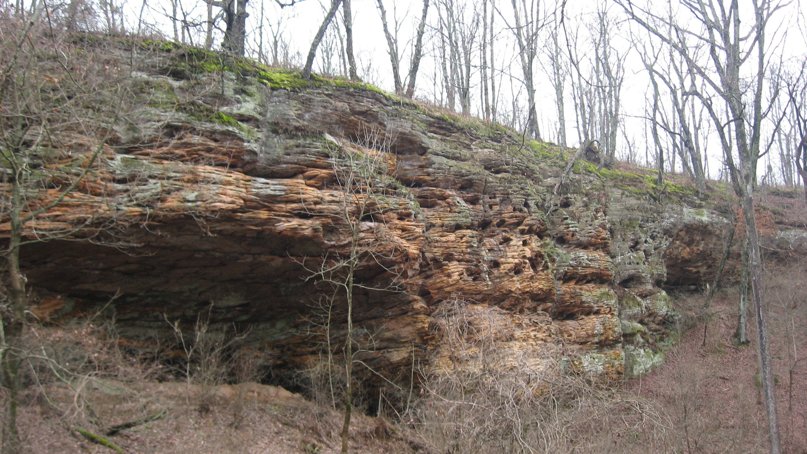 Overview of the Rockhouse Cliffs Rockshelters, located at the mouth of Rockhouse Hollow in the Hoosier National Forest northwest of Derby in Union Township, Perry County, Indiana, United States. The rockshelters are archaeological sites and are listed together on the National Register of Historic Places.